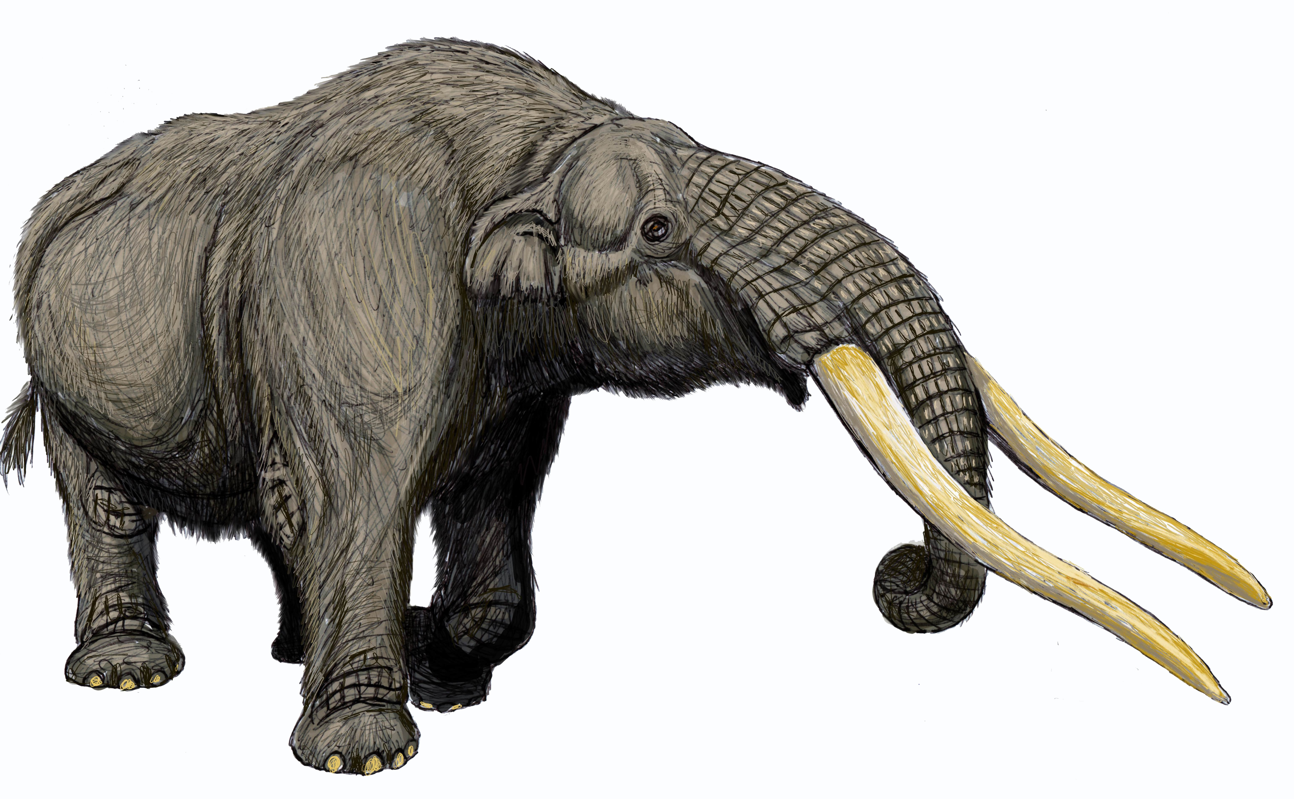 Cuvieronius hyodon, gomphothere from Late Pleistocene of South America